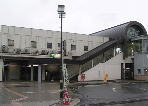 Toke Station North Exit, Midori-ku, Chiba, Japan